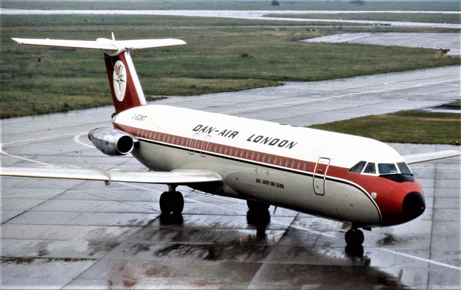 Dan-Air BAC 1-11 G-BDAT on a charter fight to Pisa in 1974.